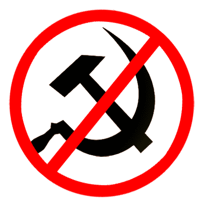 Hammer and Sickle crossed out